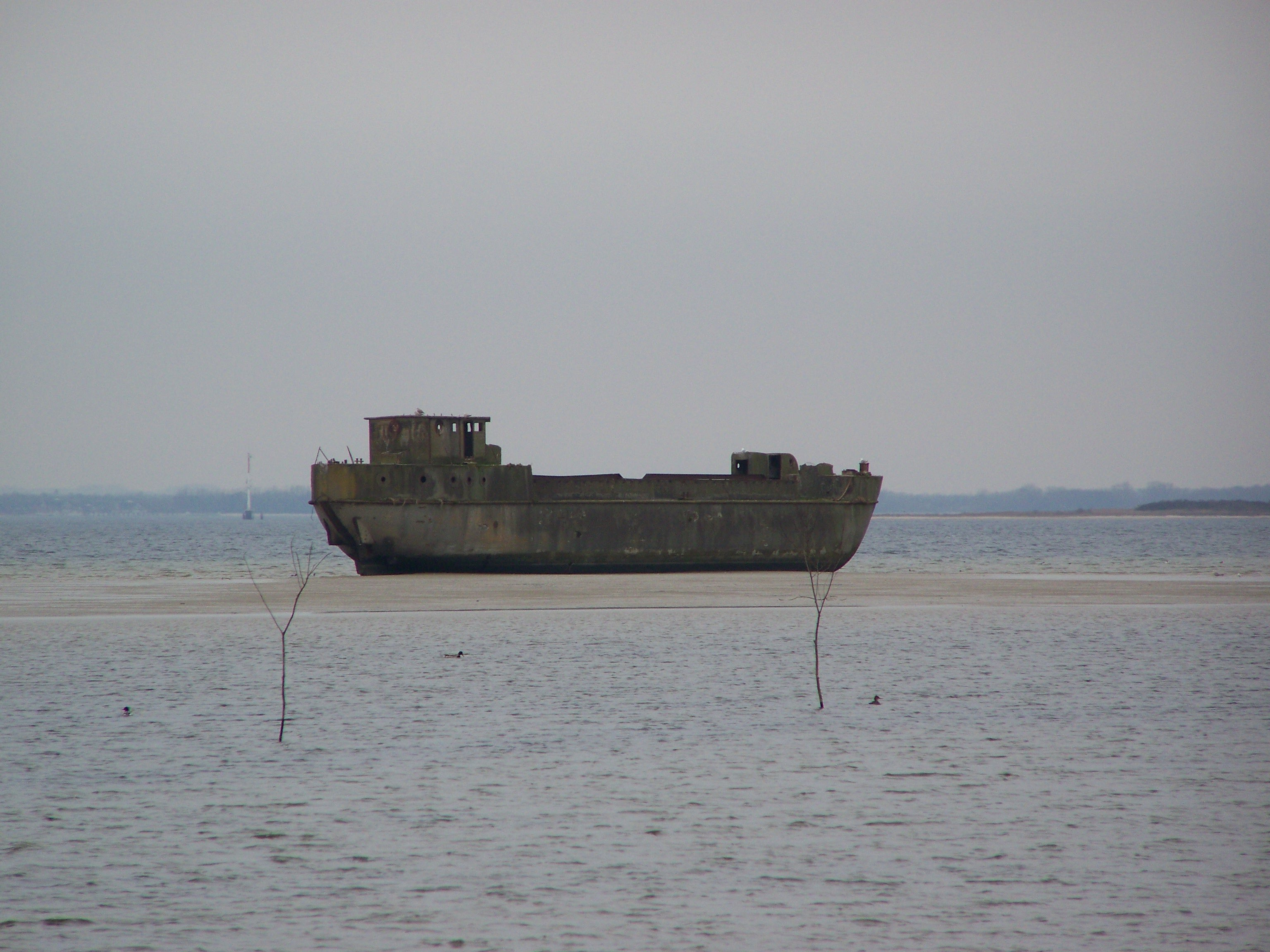 Stranded concrete ship in the bay of Wismar (Baltic Sea) near Redentin.